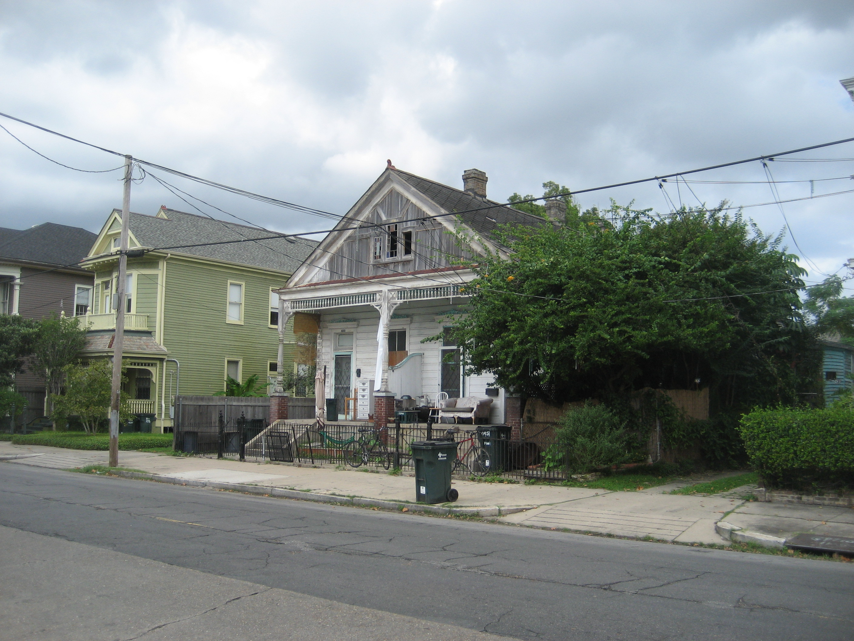 Magazine Street, Uptown New Orleans. 4900 block, lake side. In 1963 Lee Harvey Oswald and his wife Marina lived in an apartment on the right side of this building (in wing almost completely obscured by fence and foliage), renting from landlord Jessie James Garner.